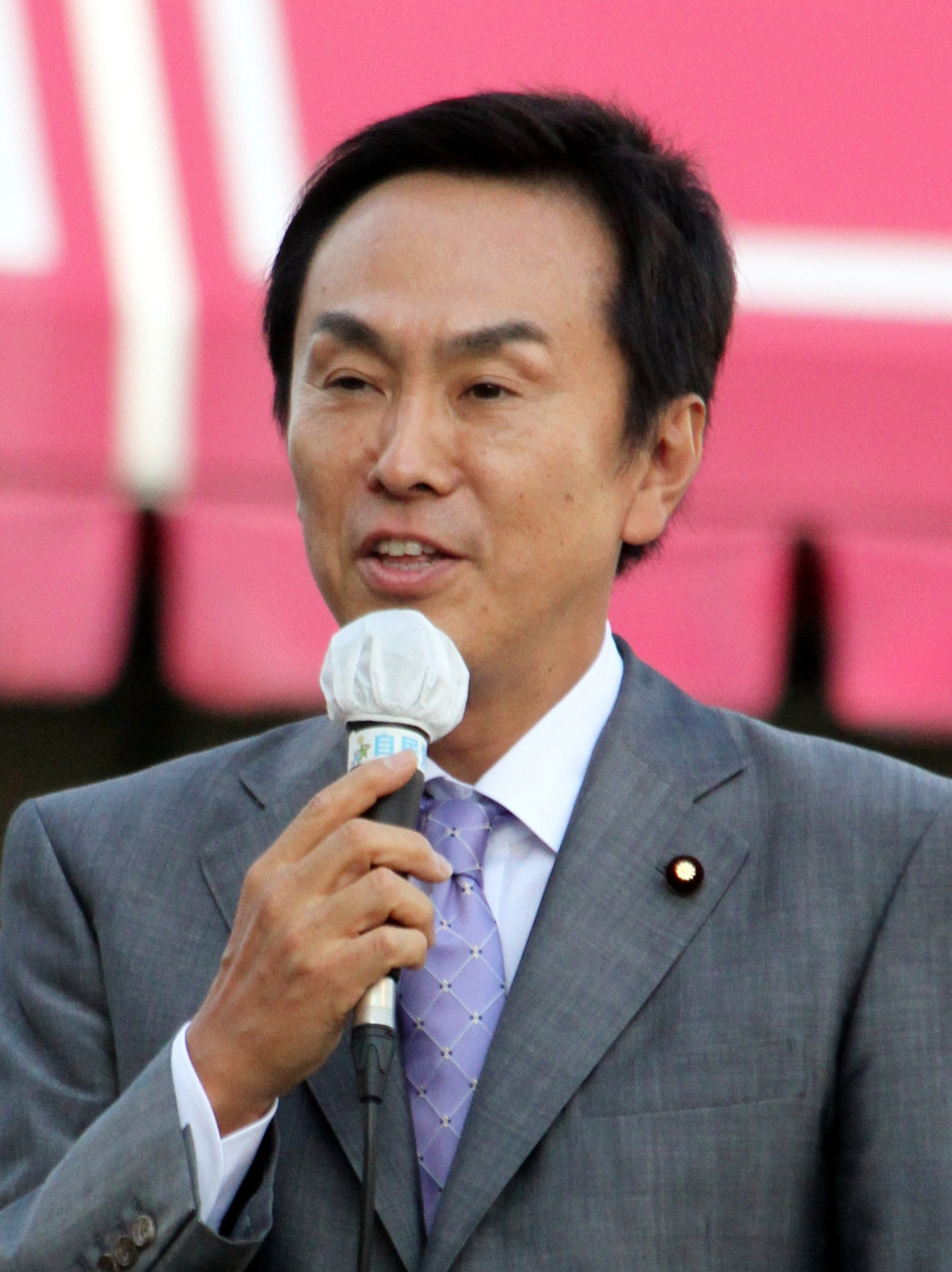 Nobuteru Ishihara, Member of the House of Representatives, made a speech in Nagano City, Nagano Prefecture on September 16, 2012.